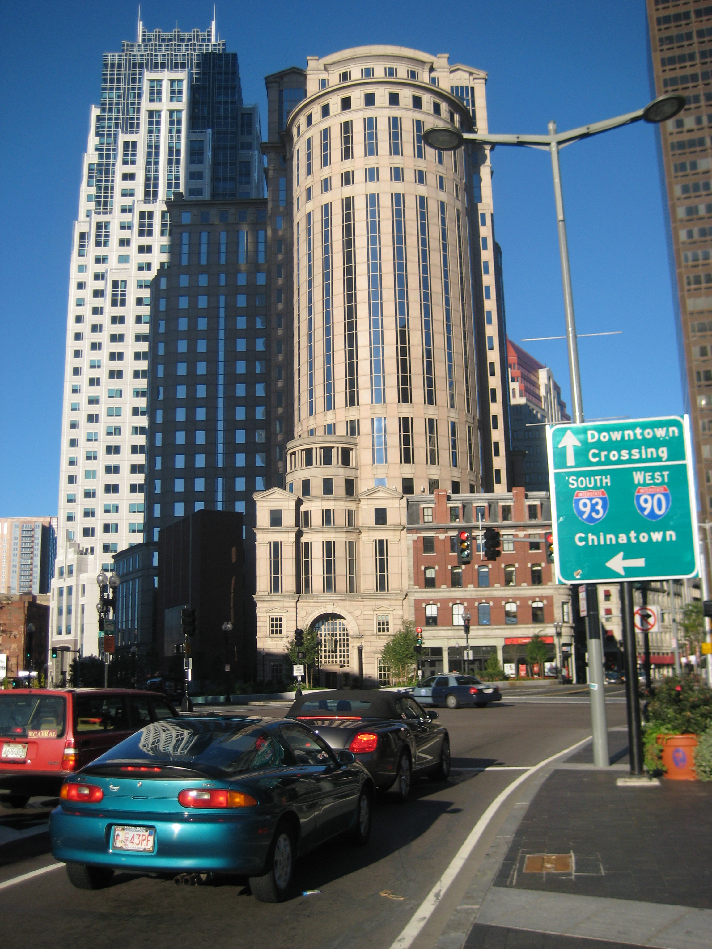 Signs in the Financial District of Boston, Massachusetts near South Station point towards Downtown Crossing, Chinatown, Interstate 93, and Interstate 90. The skyscrapers in the center of the photo are the One Lincoln Street and 125 Summer Street. October 2007 photo by John Stephen Dwyer